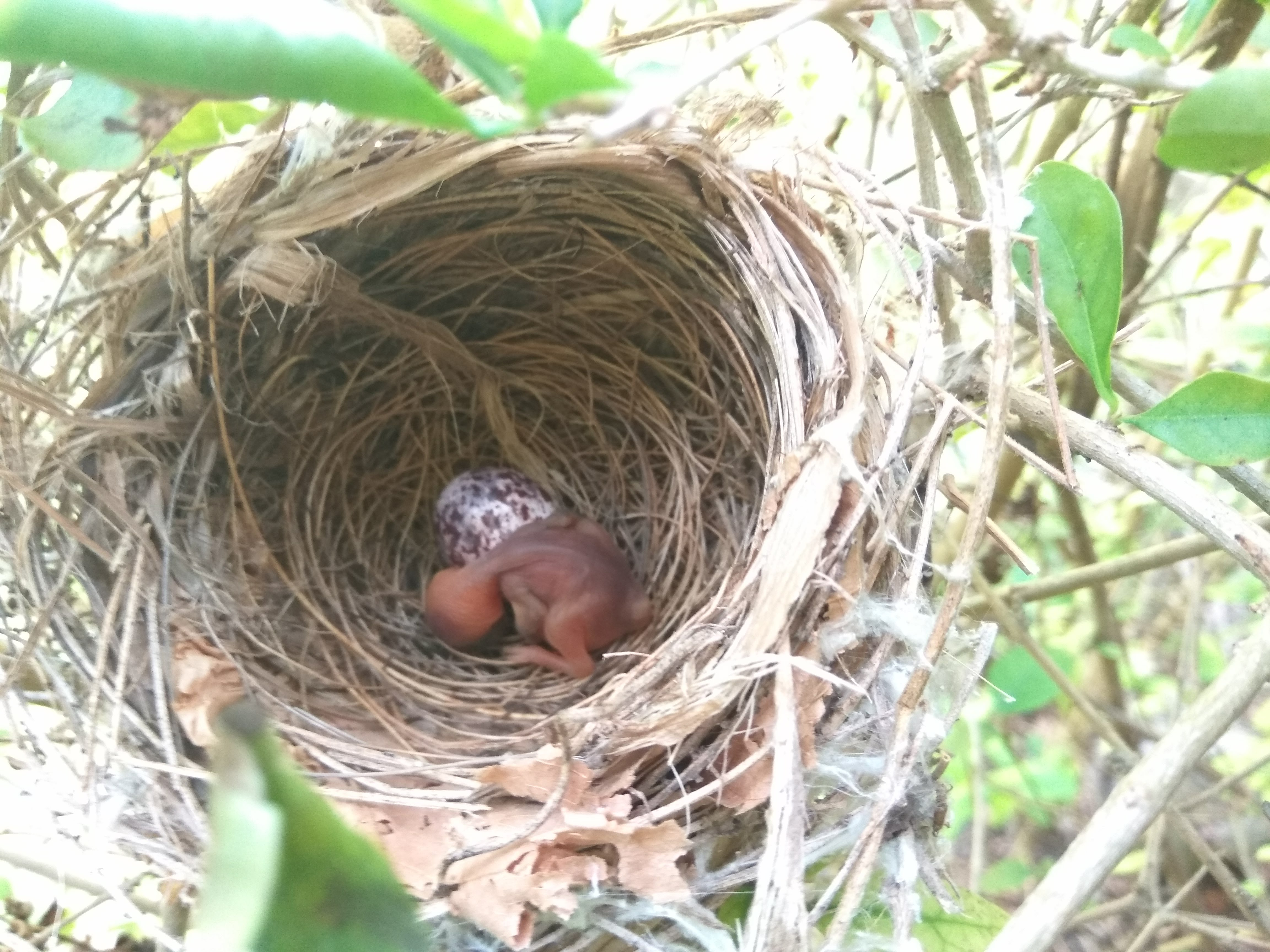 Yellow-vented bulbul chich within 24 hours of hatching, with one unhatched egg. Location is Rawai, Phuket, Thailand, taken April 10, 2018.